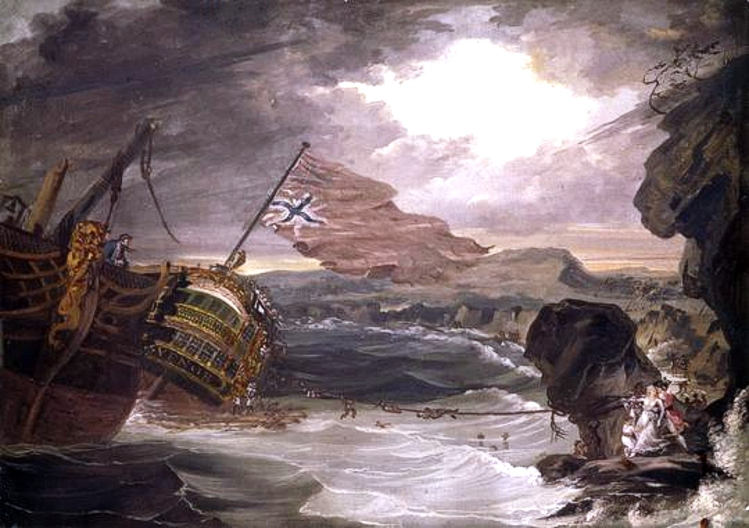 East Indiaman "Grosvenor" wrecked on the South African coast on 4 August 1782(see Wreck of the Grosvenor)